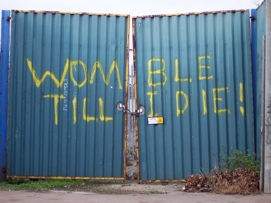 The gates to the site formerly housing Wimbledon Football Club's traditional home stadium, Plough Lane. This photograph was taken in 2006 by an unknown AFC Wimbledon supporter, three to four years after the stadium was demolished and 15 years after the last first-team match there. Following the relocation of Wimbledon F.C. to Milton Keynes in 2003, the gates, bearing the graffiti slogan "Womble Till I Die!" became a rallying symbol for AFC Wimbledon supporters. The gates have since been removed, and blocks of flats cover the site.